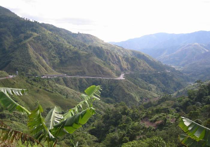 Photo of Dalton Pass between the provinces of Nueva Ecija and Nueva Vizcaya